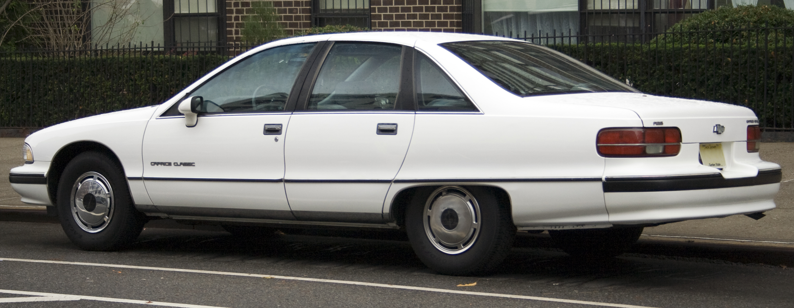 1991 Chevrolet Caprice Classic, 5.0 liter V8 and very basic specifications. These are becoming rarer now.